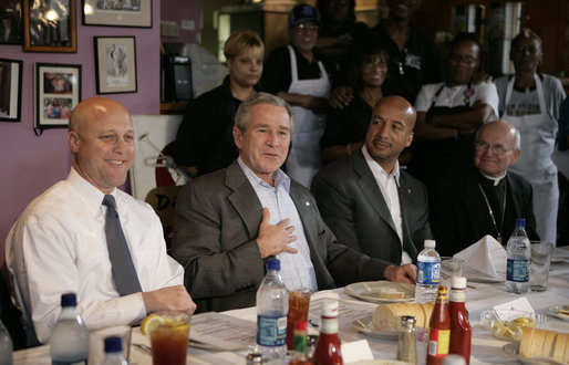 US President George W. Bush is joined by New Orleans Mayor Ray Nagin, Louisiana Lt. Gov. Mitch Landrieu, left, and New Orleans Archbishop Alfred Hughes, right, Thursday, March 1, 2007 in New Orleans, during a luncheon with elected officials and community leaders on the recovery progress of their Gulf Coast region. The location is Li'll Dizzy's restaurant in the Treme neighborhood of New Orleans. Restaurant owner Wayne Baquet is seen in background, wearing cap, between Bush and Nagin.